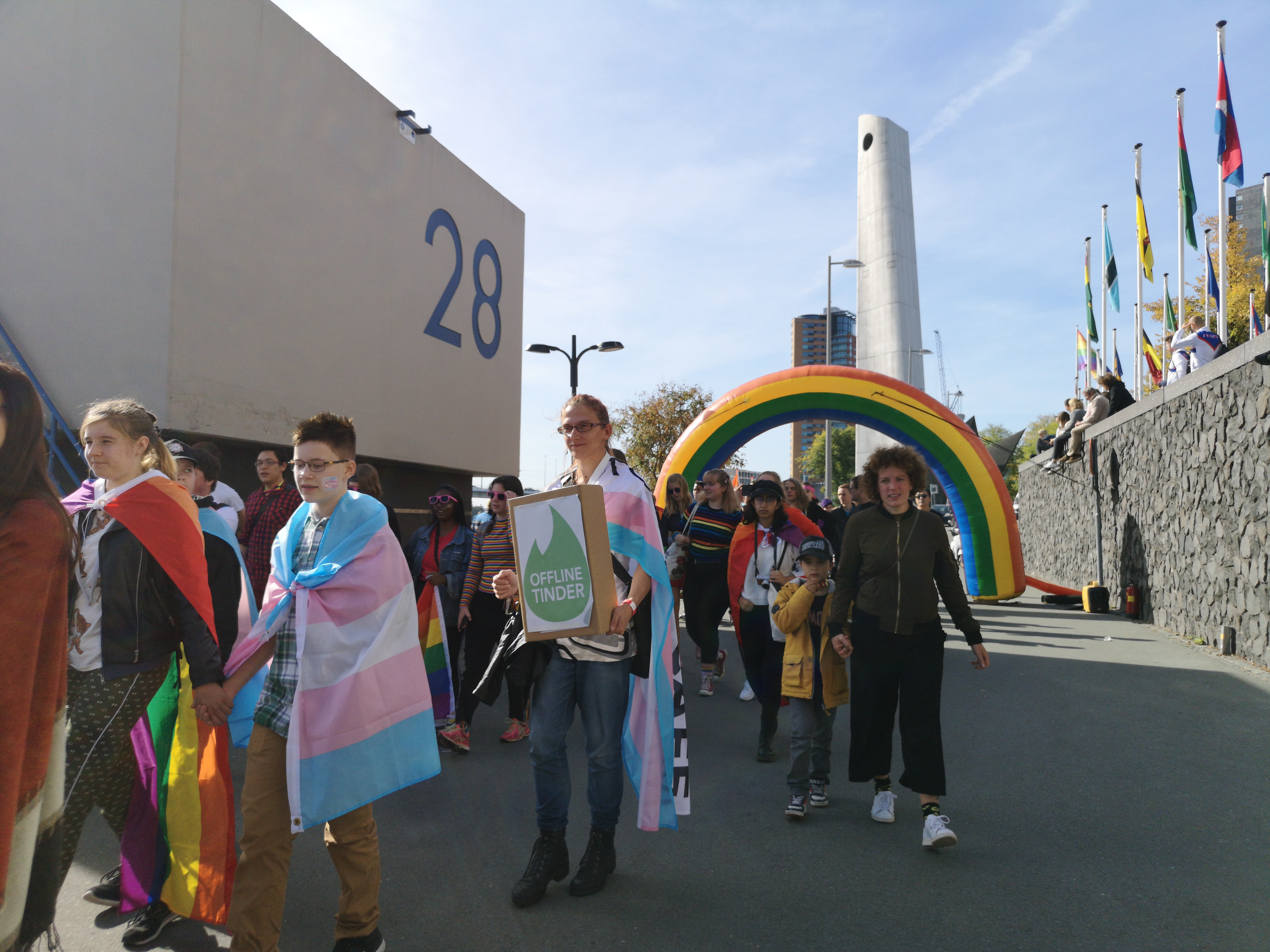 Pride Parade Rotterdam 2018